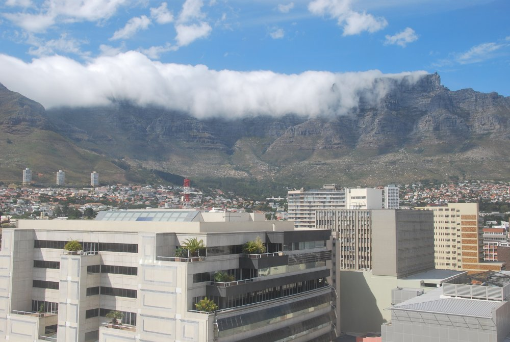 View of Table Mountain (with its "table cloth") from the Mutual Building, Darling Street, Cape Town.